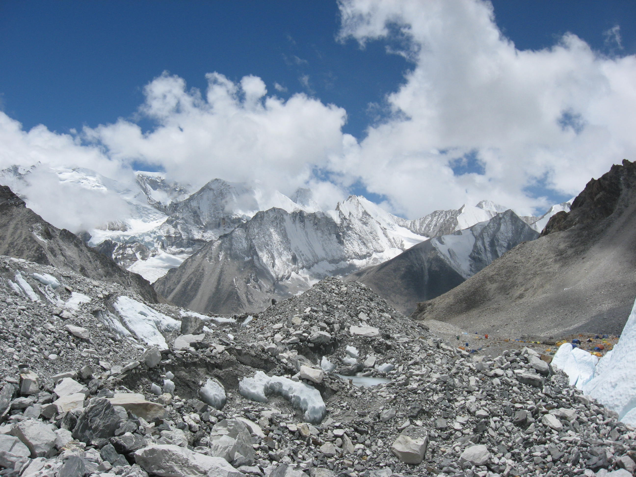 Mt Makalu